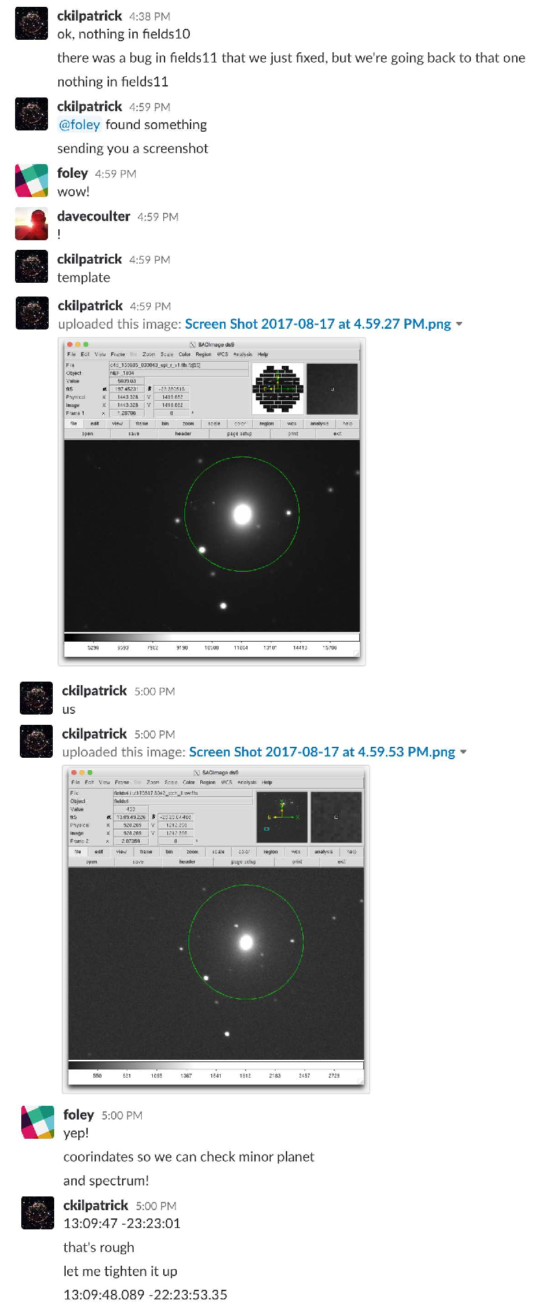 One-Meter, Two Hemisphere (1M2H) Slack Conversation . At the time of the GW170817 alert, D. Coulter, R. Foley, and M. Siebert were at the Dark Cosmology Centre in Copenhagen, Denmark, while C. Kilpatrick and C. Rojas-Bravo were in Santa Cruz, California. Meanwhile, B. Shappee, J. Simon, and N. Ulloa were at Las Campanas Observatory with M. Drout supporting from Pasadena, California. Image of a Slack Conversation, which includes the discovery of SSS17a. All times displayed are Pacific Daylight Time.